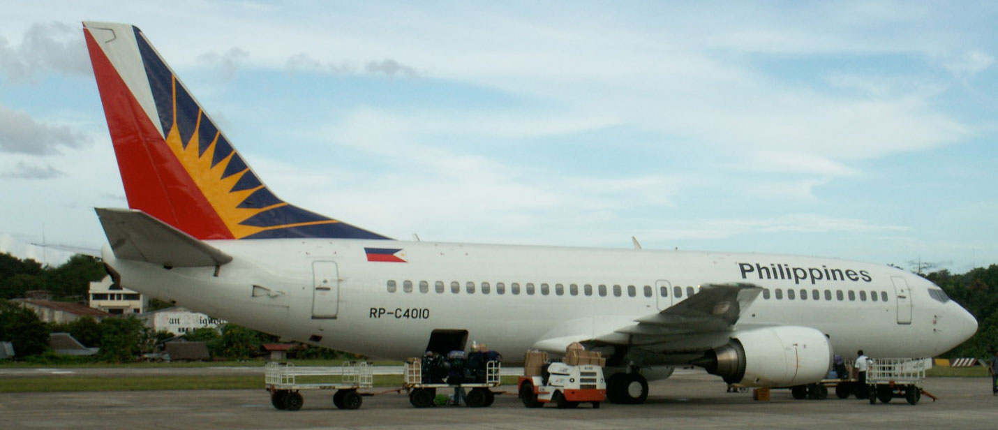 Photograph of Philippine Airlines 737-3Y0 at the Cagayan De Oro airport in the Philippines, arriving from Cebu.